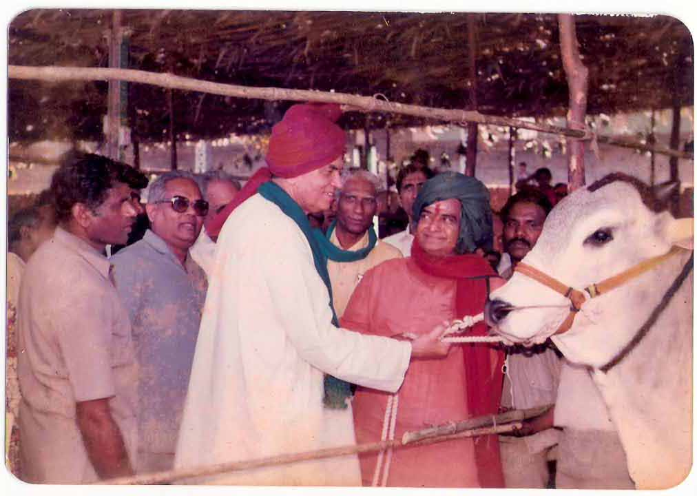 Ongole Bull of Moses after winning the Andhra Prdesh State Award in 1988 with Sri NT Rama Rao [green turban] the then Chief Minister of Andhra Pradesh and Sri Balaram Jhakar [red turban] the then Agricultural Minister, Government of India.